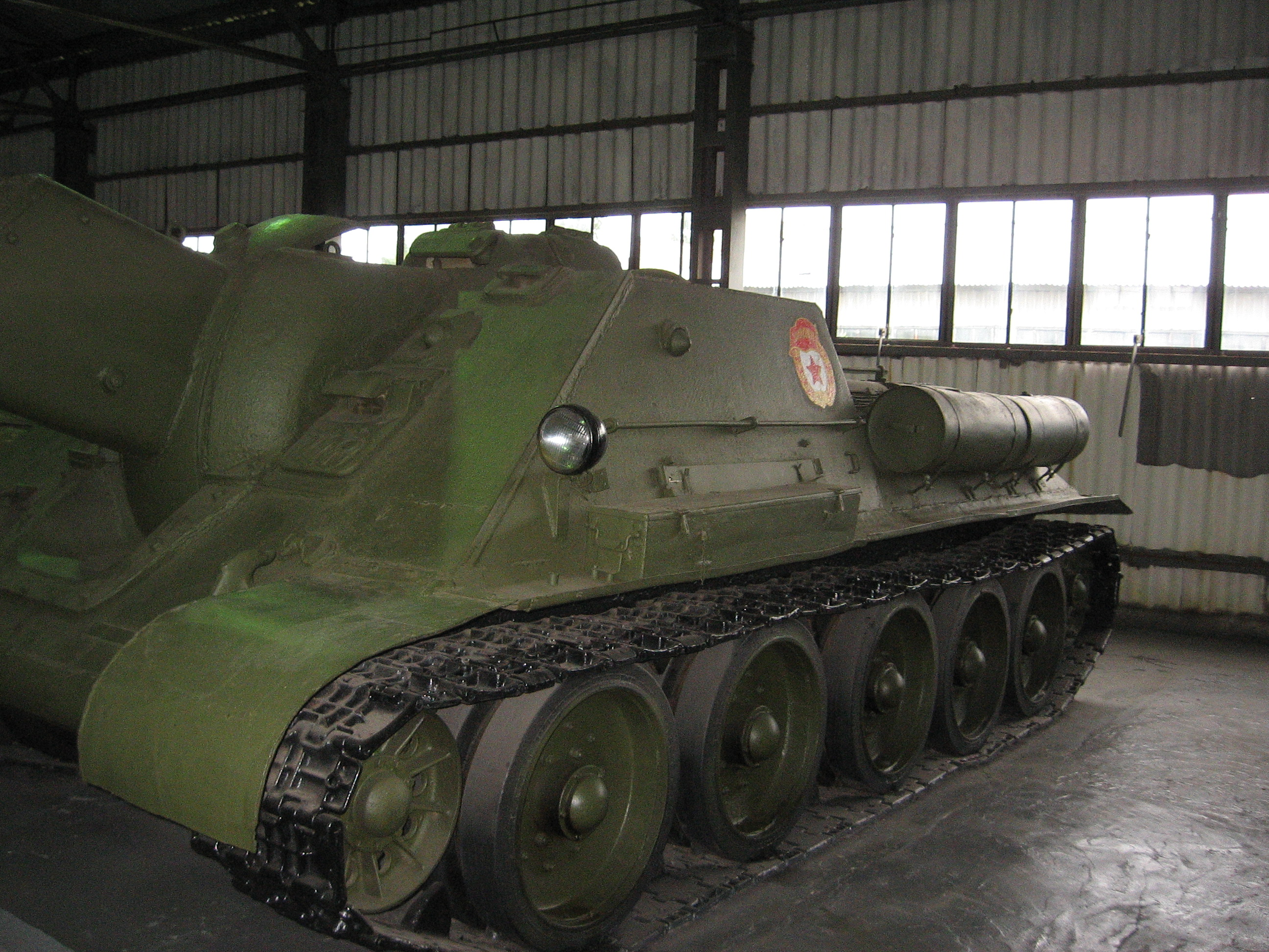 Soviet self-propelled gun SU-122, displayed in Kubinka Tank Museum. Photo taken on September 10, 2006. Source: Photo by BVV.